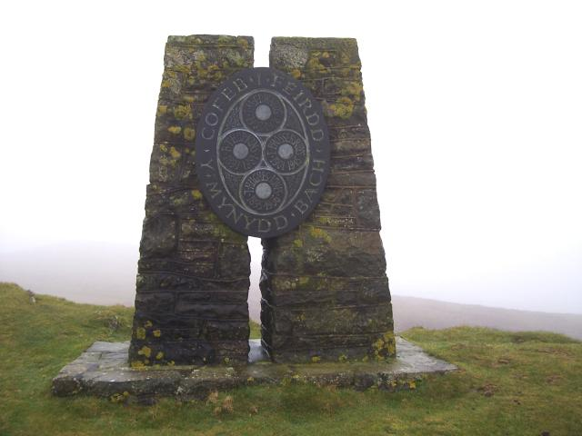 Mynydd Bach. Monument to the life and works of four poets from the Mynydd Bach area of Cardiganshire, namely T. Hughes Jones (1895-1966), B.T. Hopkins (1897-1981), E. Prosser Rhys (1901-45) and J.M. Edwards (1903-78).